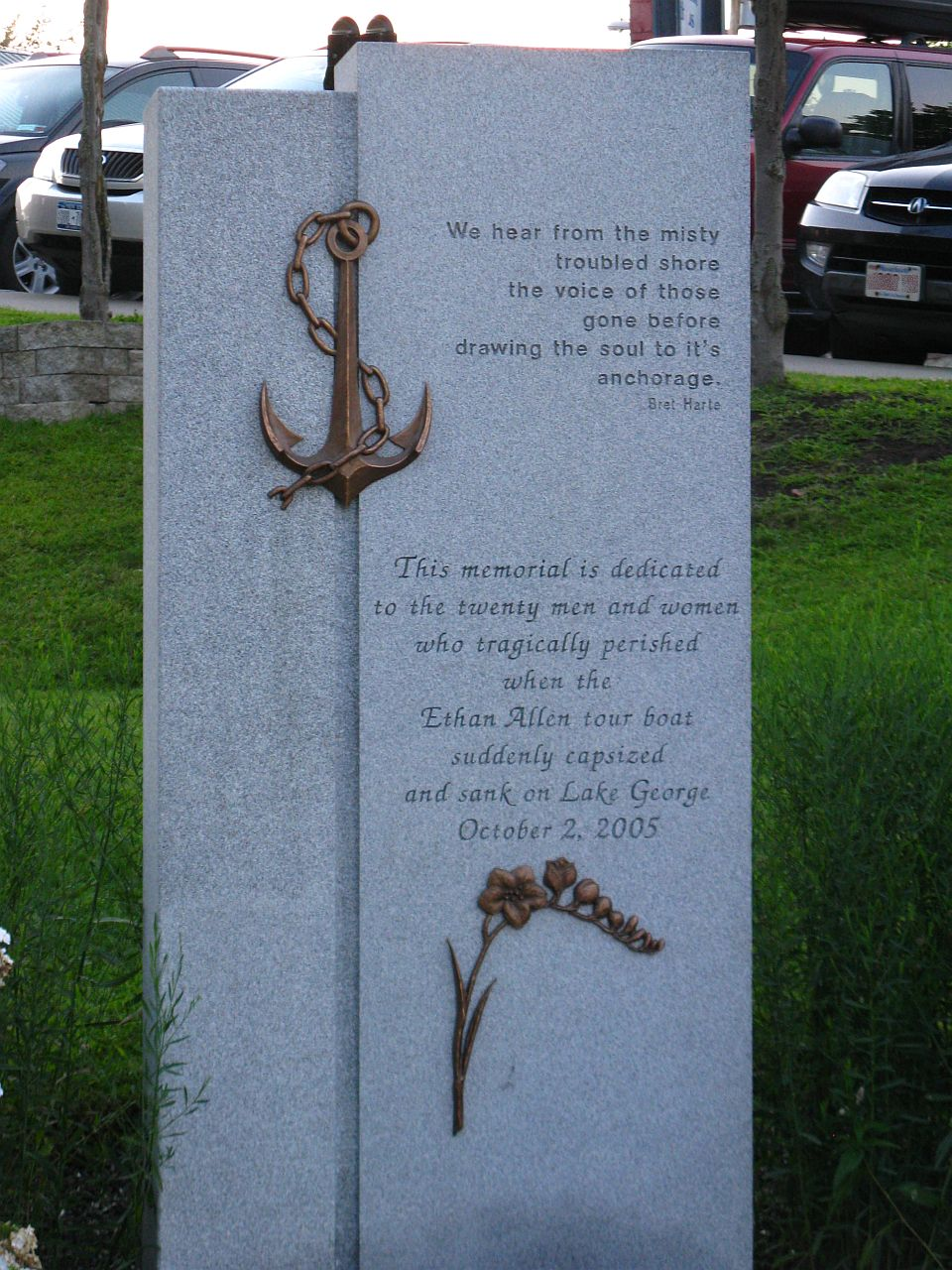 Monument at Lower Amherst Street, shore of Lake George, Lake George Village, NY commemorating the 20 deaths in the capsizing of the sightseeing boat Ethan Allen on October 2, 2005